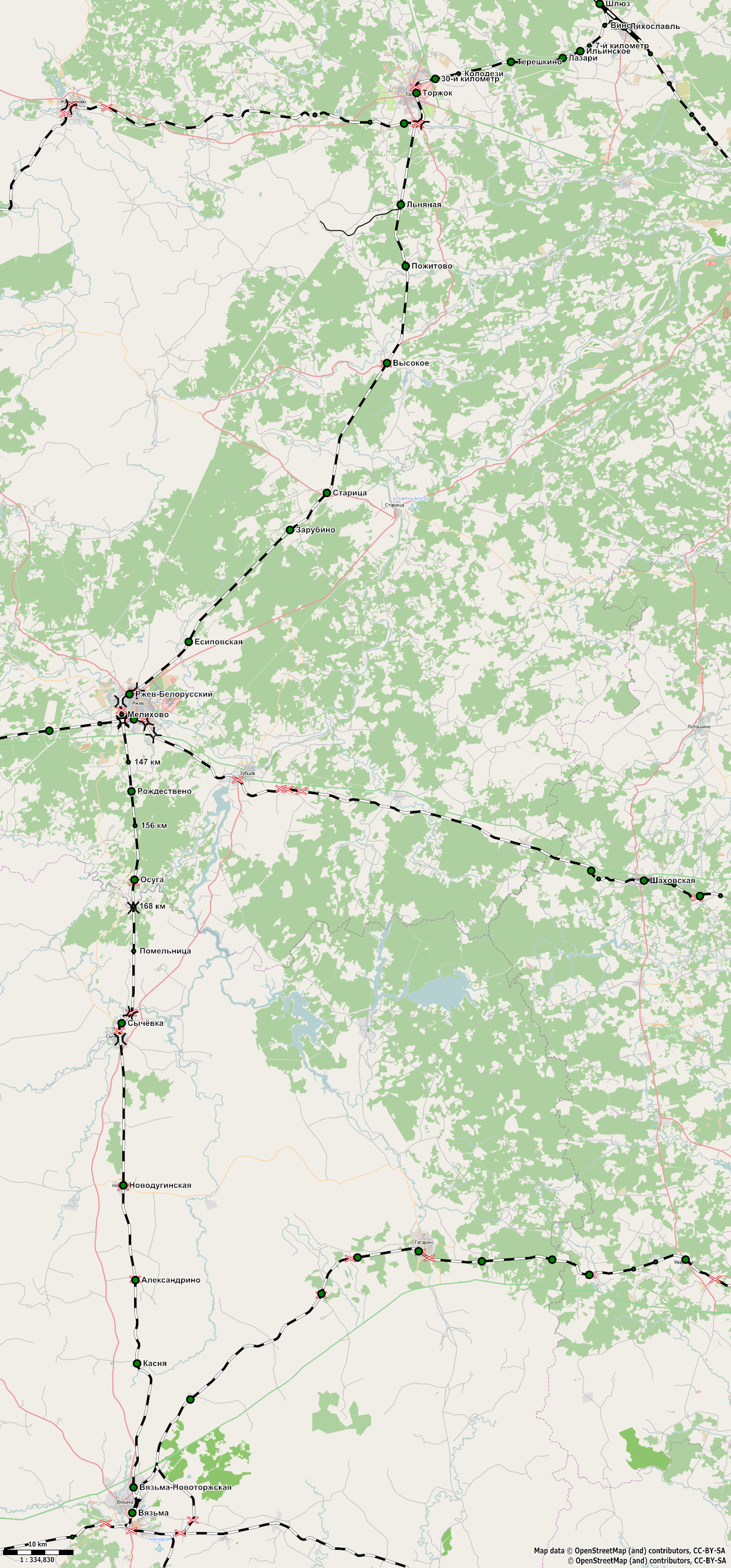 Map of railroad line Likhoslavl - Rzev - Vyazma. RZD. Russia, Tverskaya and Smolenskaya oblast.